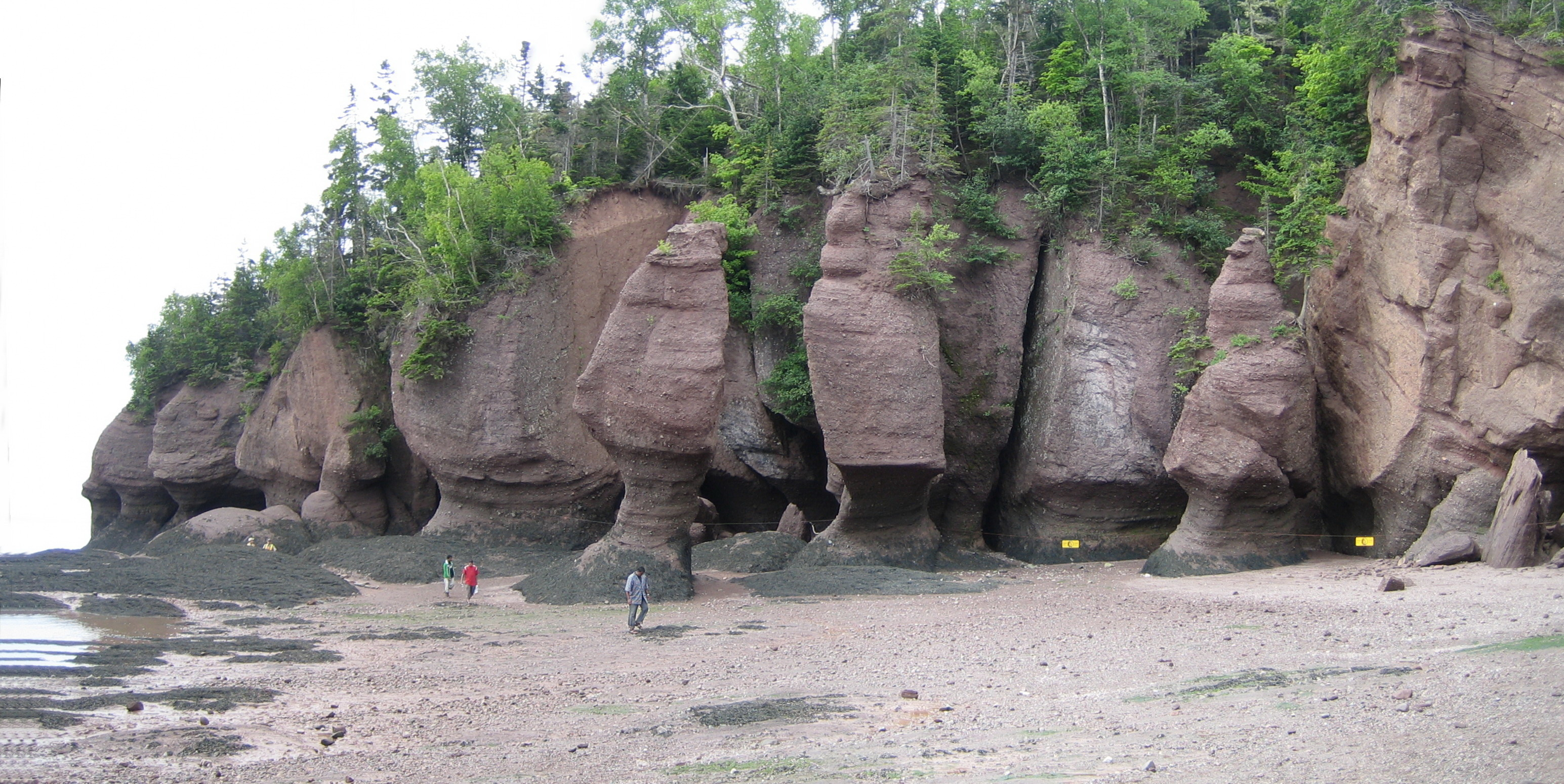 Low Tide .